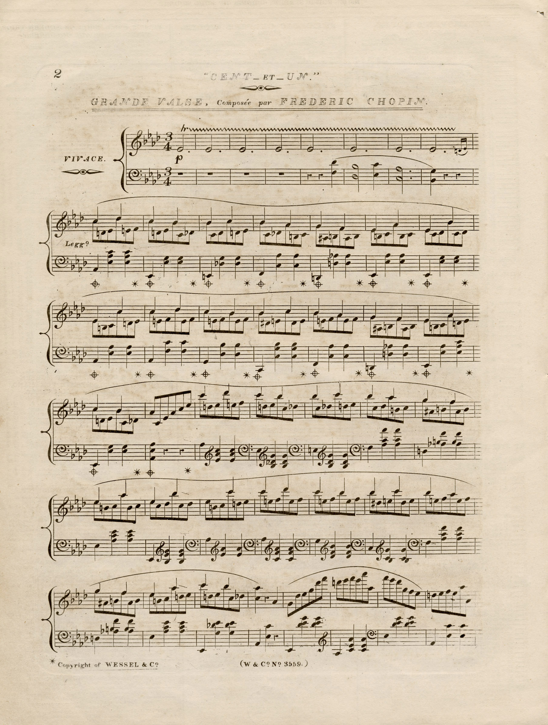 Finrt page of Chopin's Valse in A flat major, Op. 32, published by Wessel & Co. in 1840.